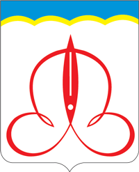 Shchelkovo (Moscow oblast), coat of arms (2001)